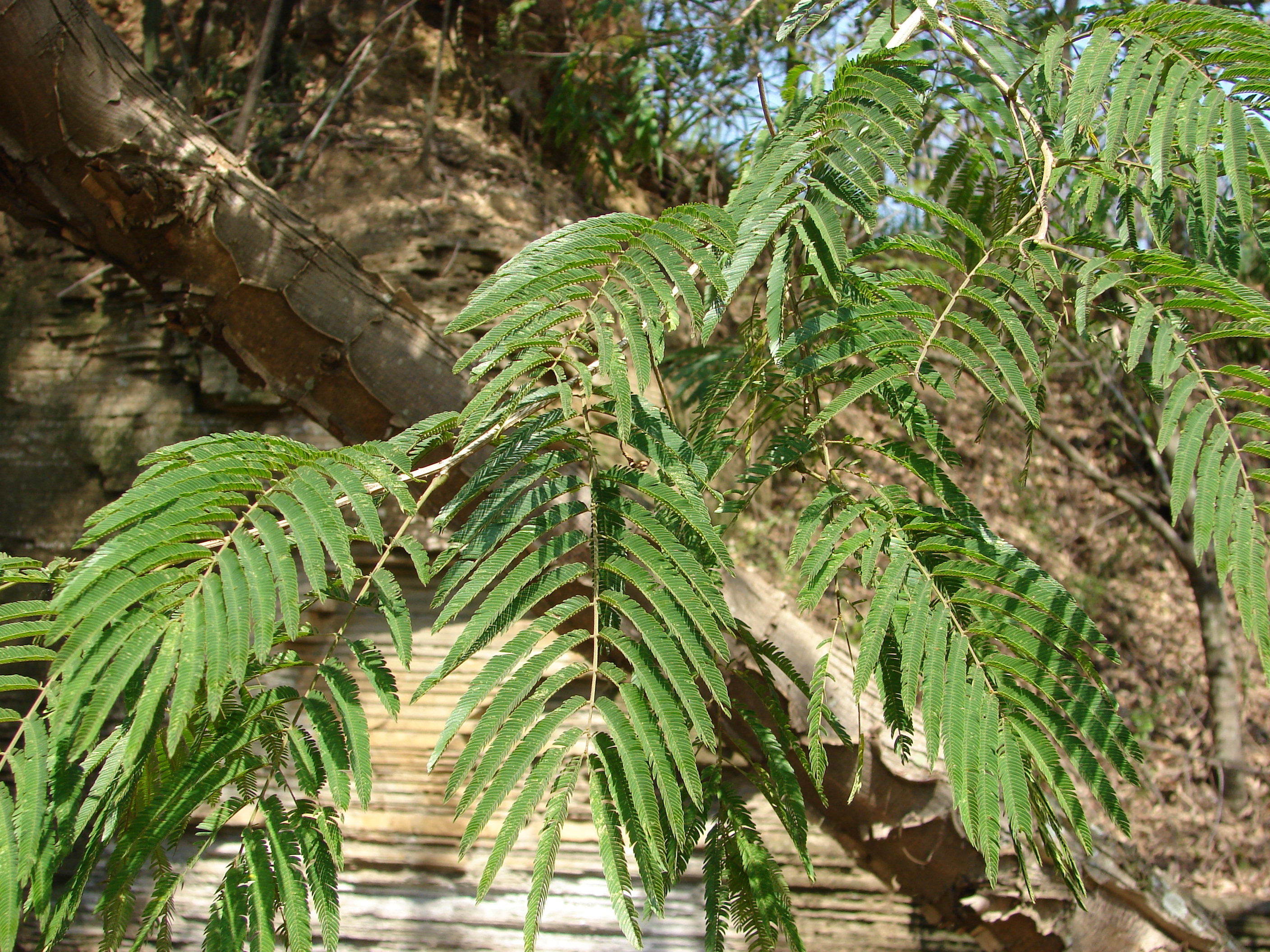 Piptadenia gonoacantha'leaves and young trunk (pau-jacaré in Brazil)